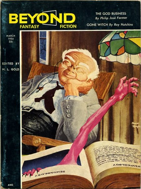 Cover of March 1954 issue of Beyond Fantasy Fiction. Artist is Scott Templar. Copyright was either Templar, or more likely Galaxy Publishing Corporation, who published the magazine. Since this magazine was first published in the U.S. before 1964, the original copyright lasted 27 years from the end of the year of first publication. The copyright holder was free to renew the copyright any time during the year 1981, but they did not do so. (All copyright renewals since 1977 are on file at the U.S. Copyright Office, and can be searched online here. The copyrights on certain individual stories were renewed, but the copyright on the cover was not.) The copyright has expired.